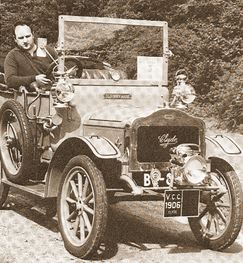 1906 Clyde